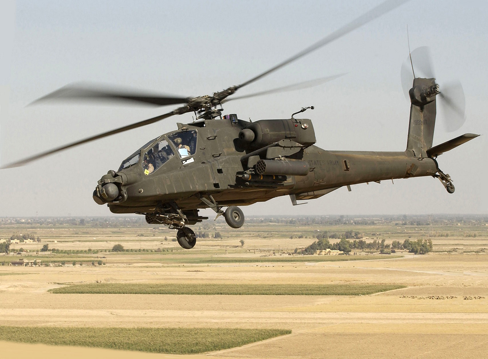 An AH-64D Apache Longbow helicopter from 1st Battalion, 101st Aviation Regiment, based at Forward Operating Base Speicher, Iraq.